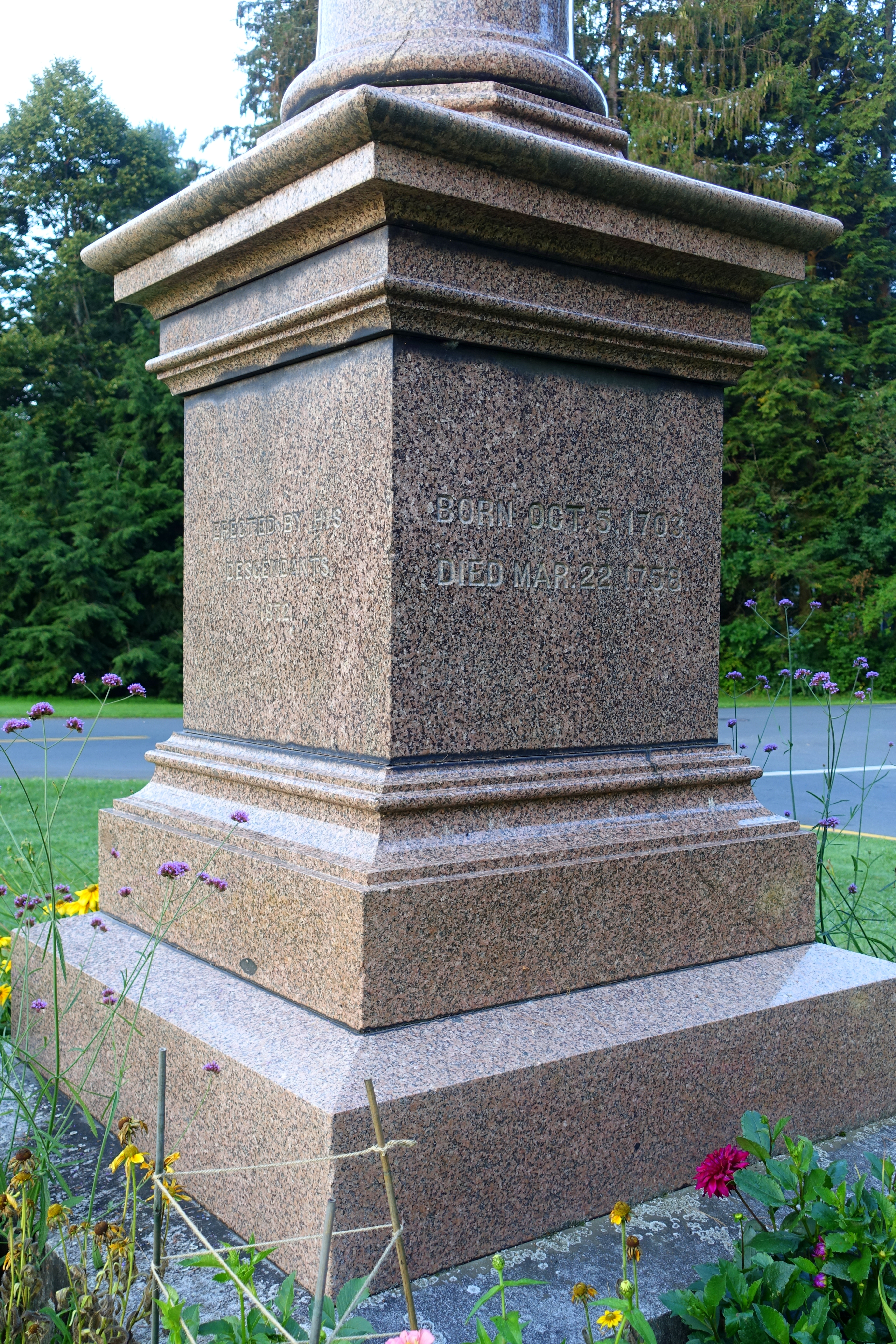 Jonathan Edwards Monument - Stockbridge, Massachusetts, USA. Erected 1872.